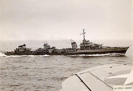 French "large destroyer"' Le Fantasque. Photograph obviously taken by a member of the US Navy or US Army Air Forces.